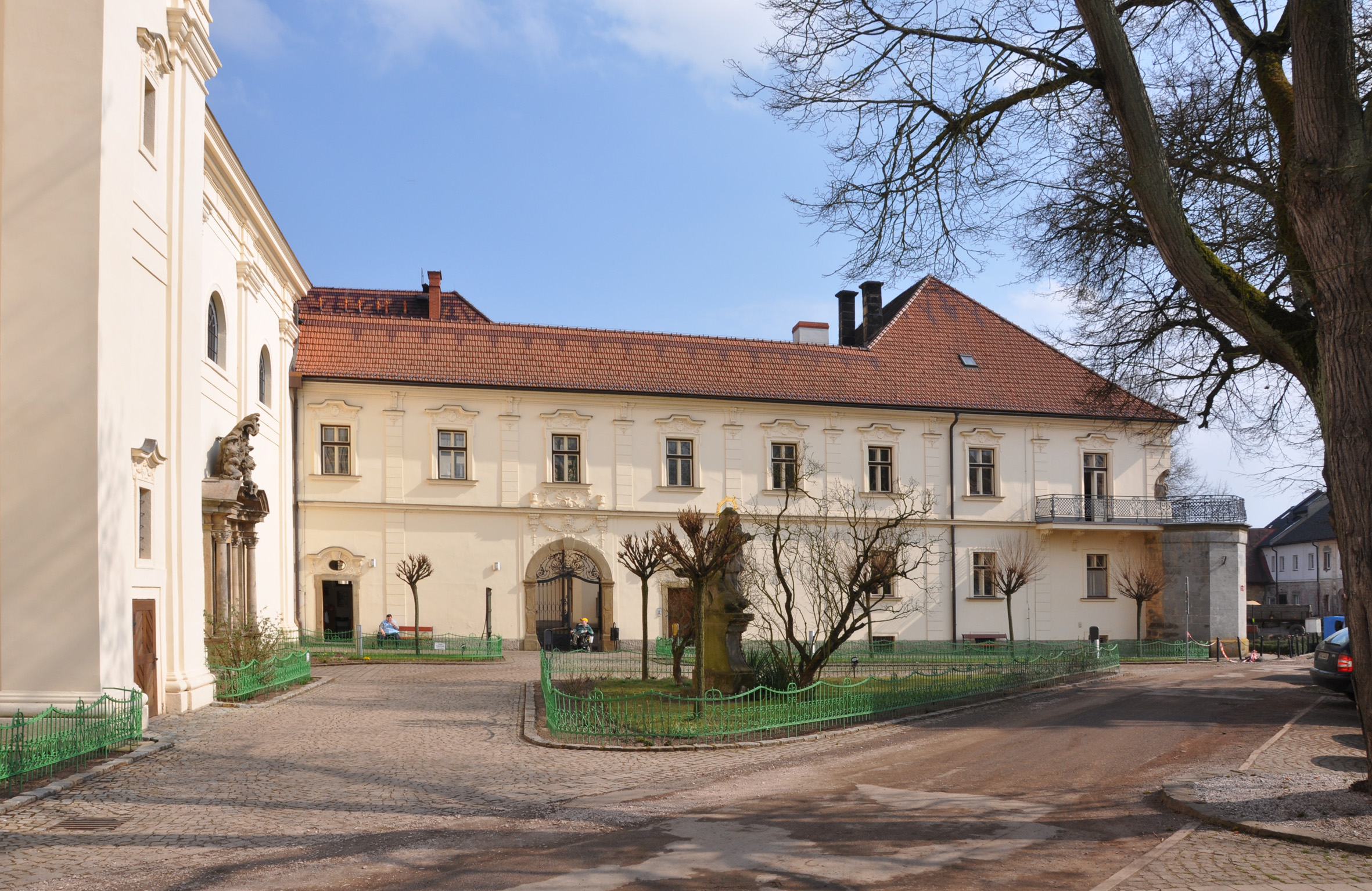 Zirec - the palace 2015